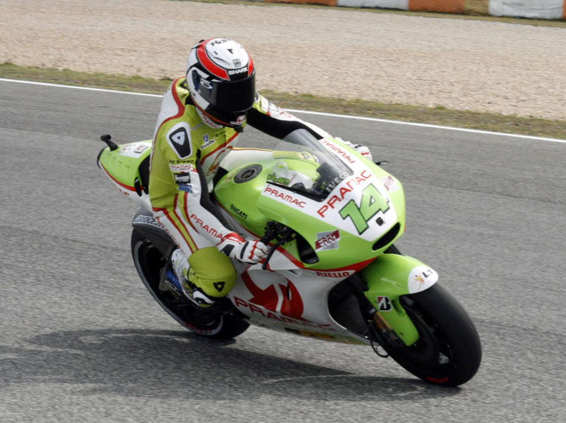 Randy de Puniet 2011 Estoril